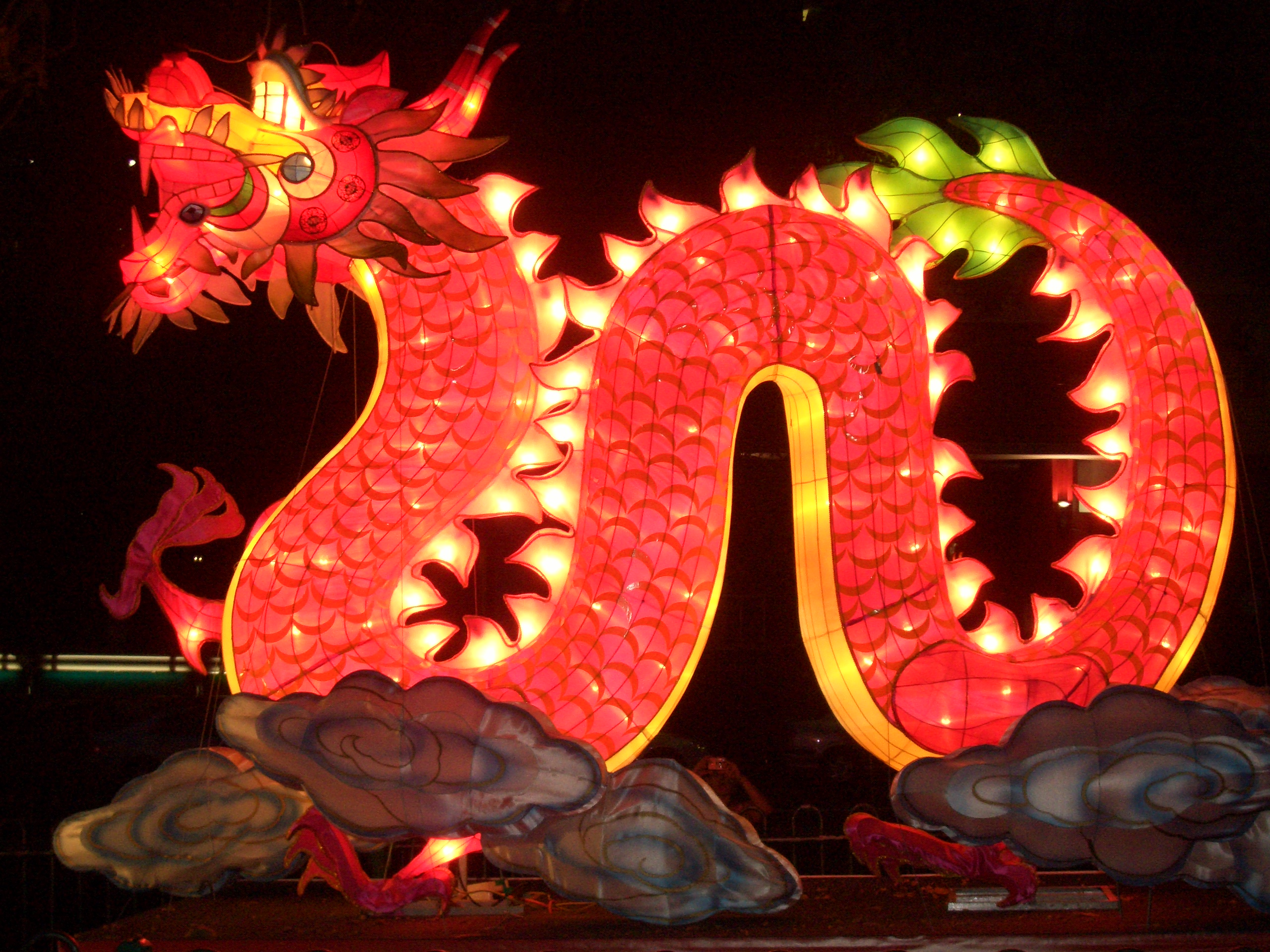 Dragon, Chinese New Year celebrations, Belmore Park, Sydney